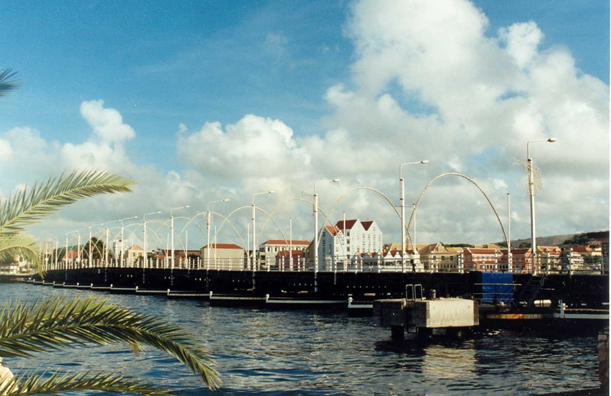 Queen Emma Bridge (nickname Swinging Old Lady, Willemstad, Curaçao, Netherlands Antilles